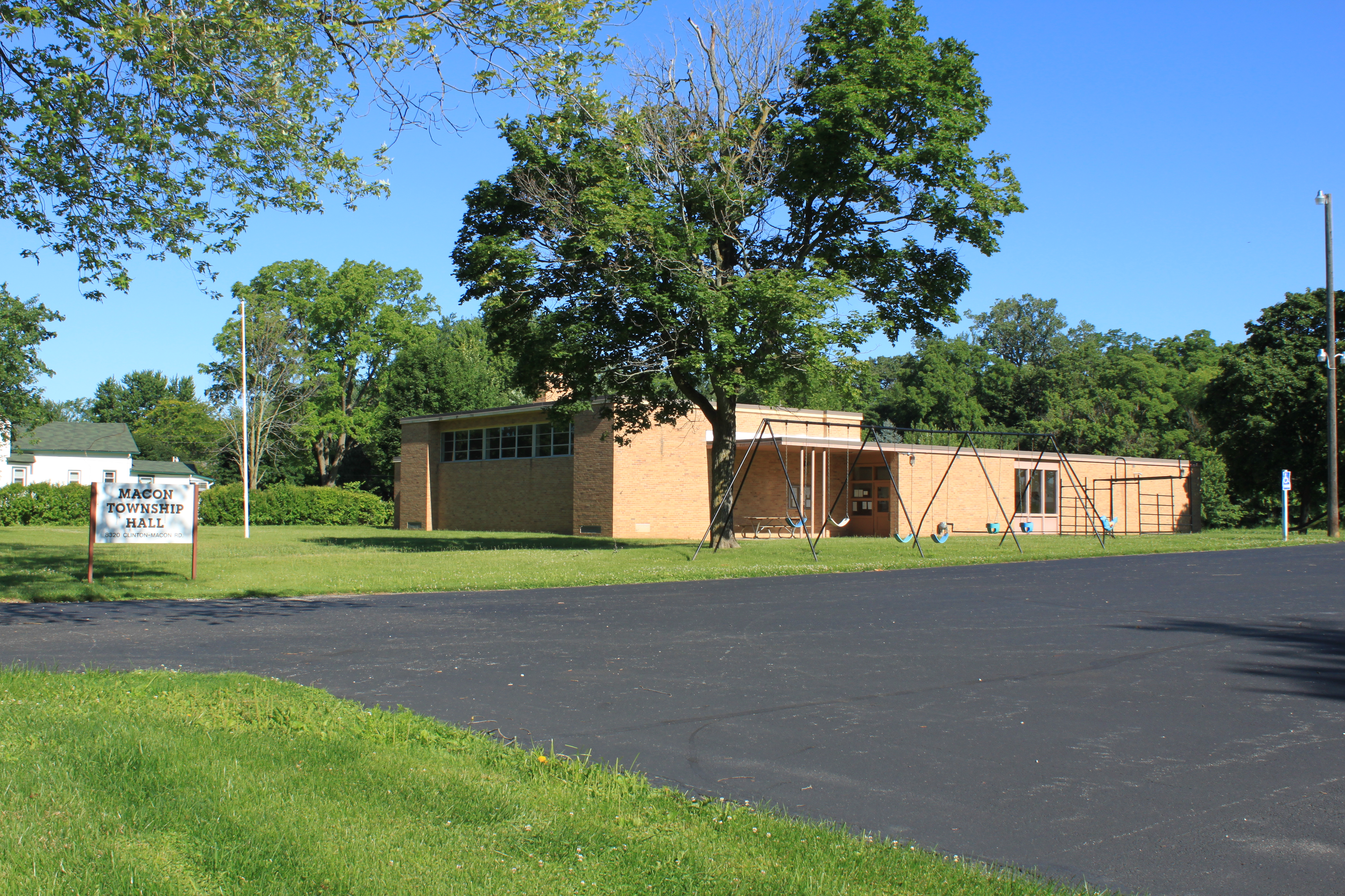 Macon Township Hall, Michigan, 8320 Clinton-Macon Road